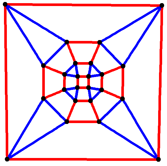 Schlegel diagram